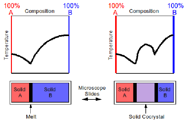 melting pt graph